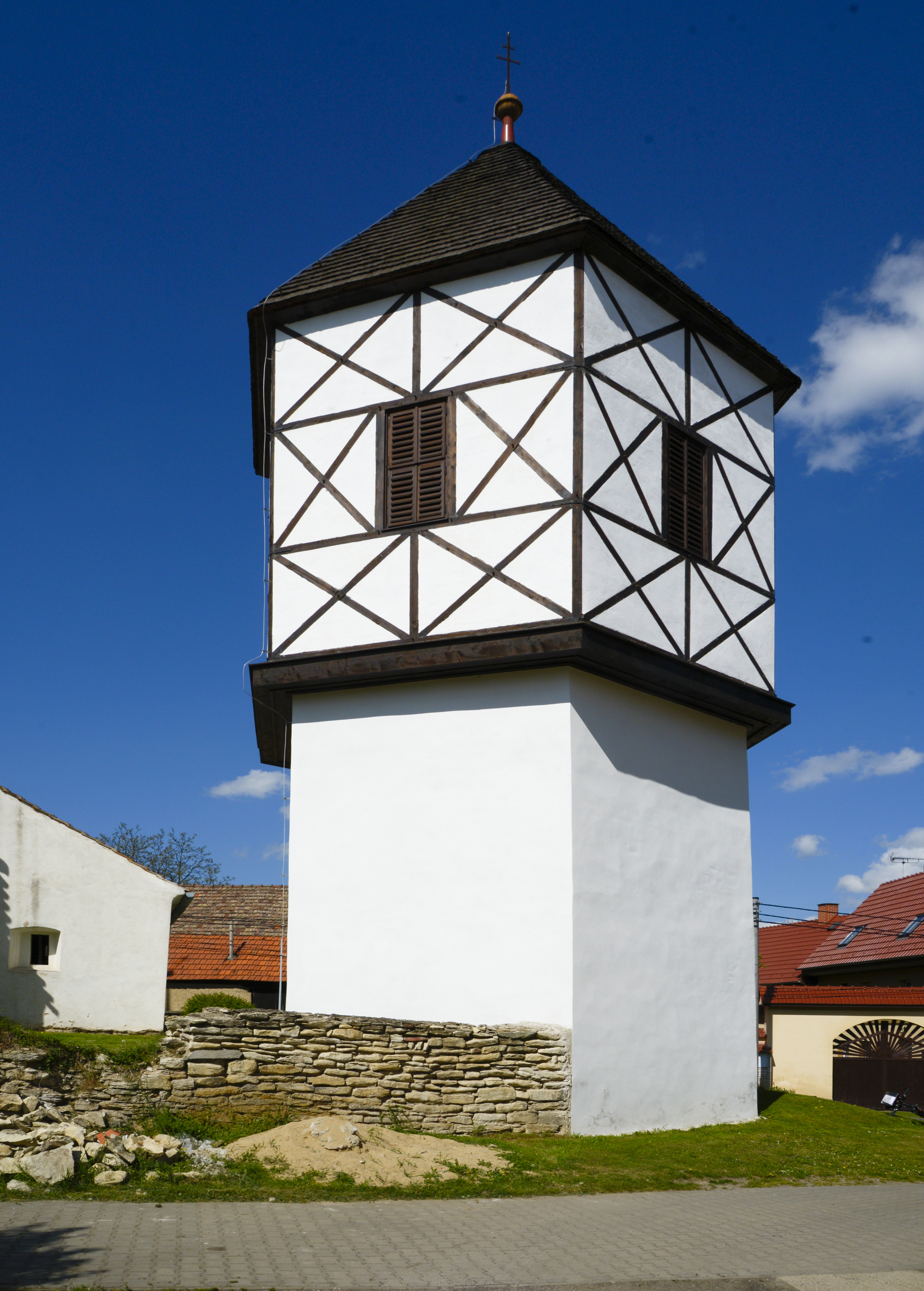 Saint Nicholas Church in Lounky